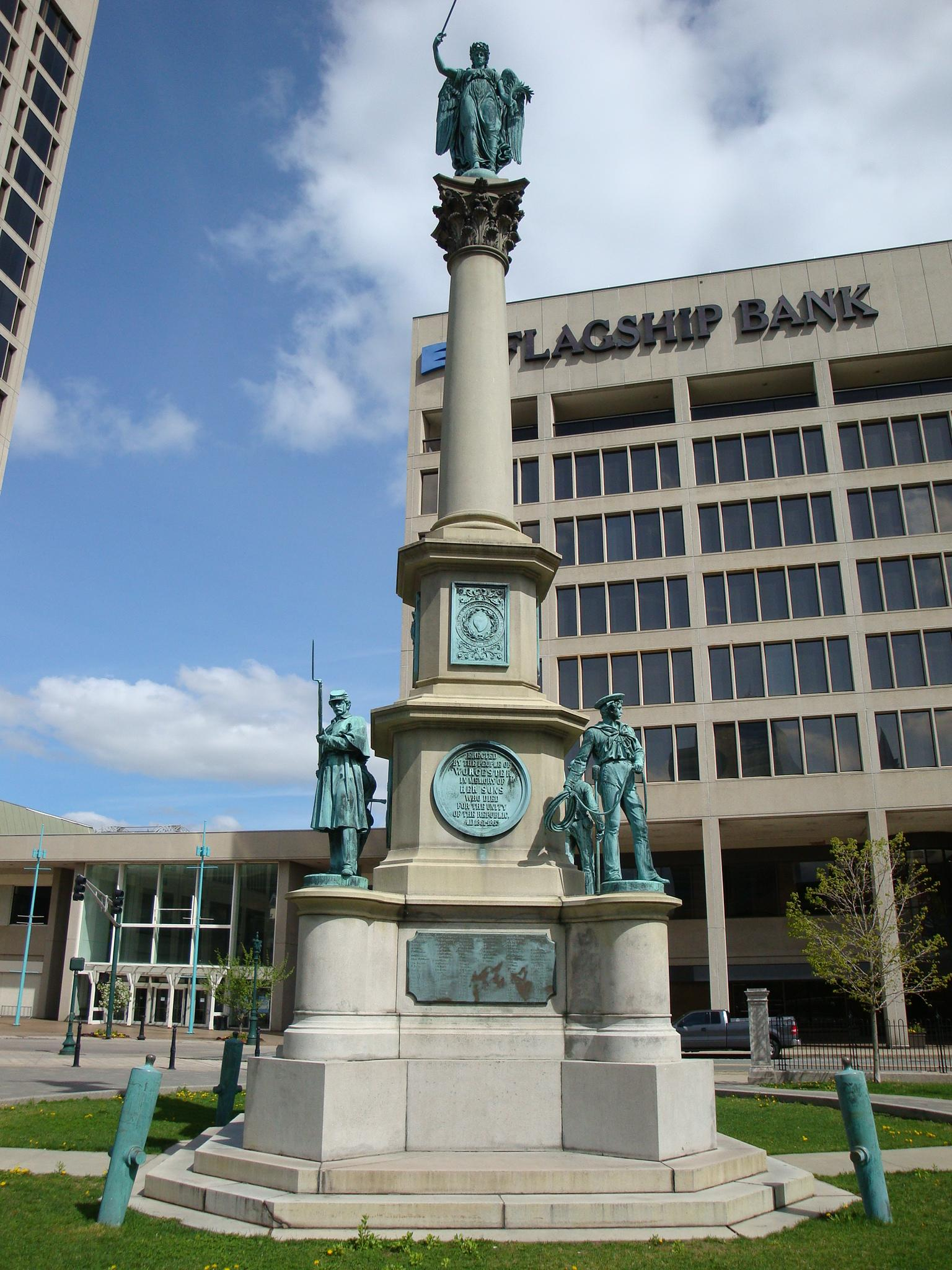 Civil War Memorial Worcester, MA